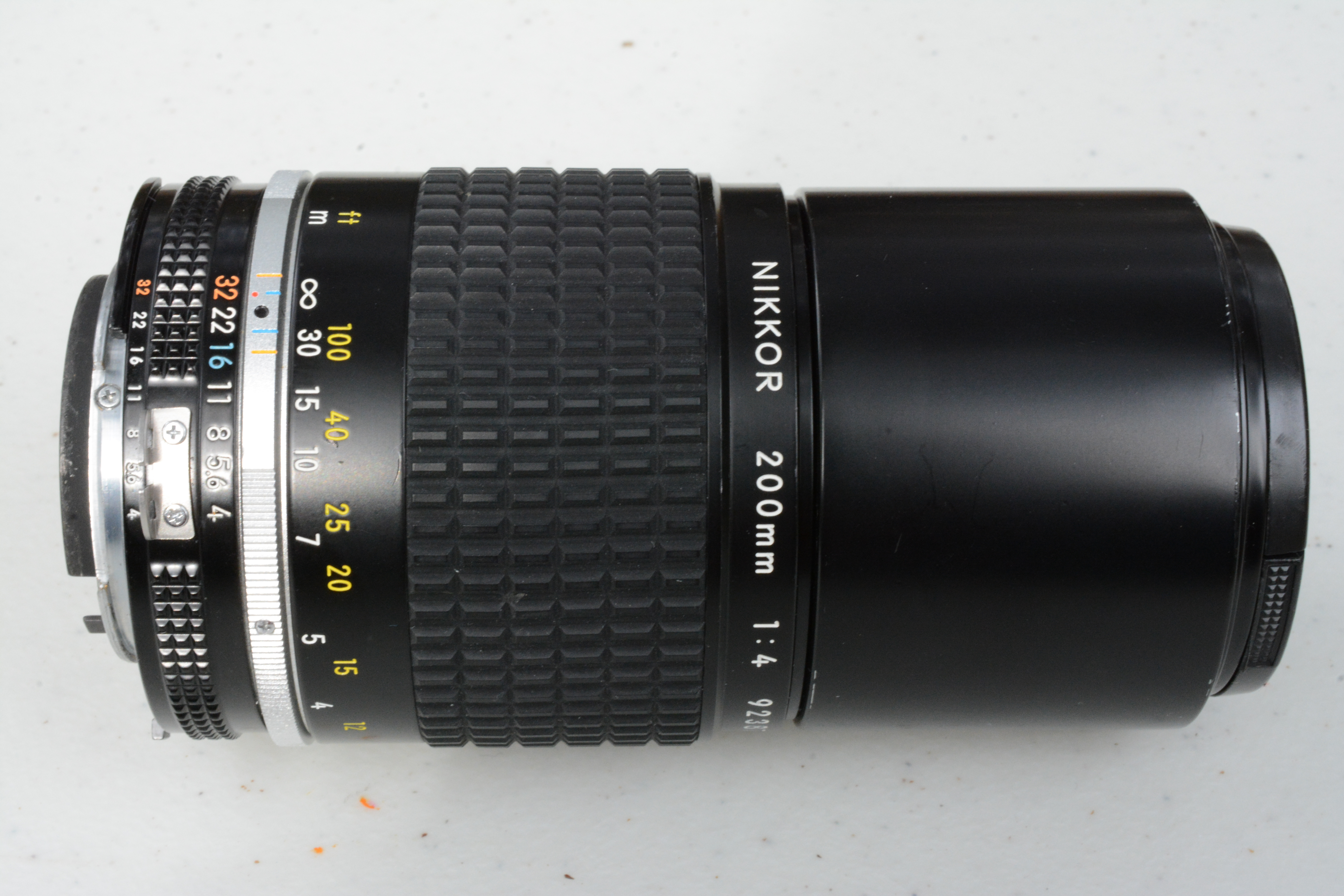 Nikon 200mm f/f manual focus lens